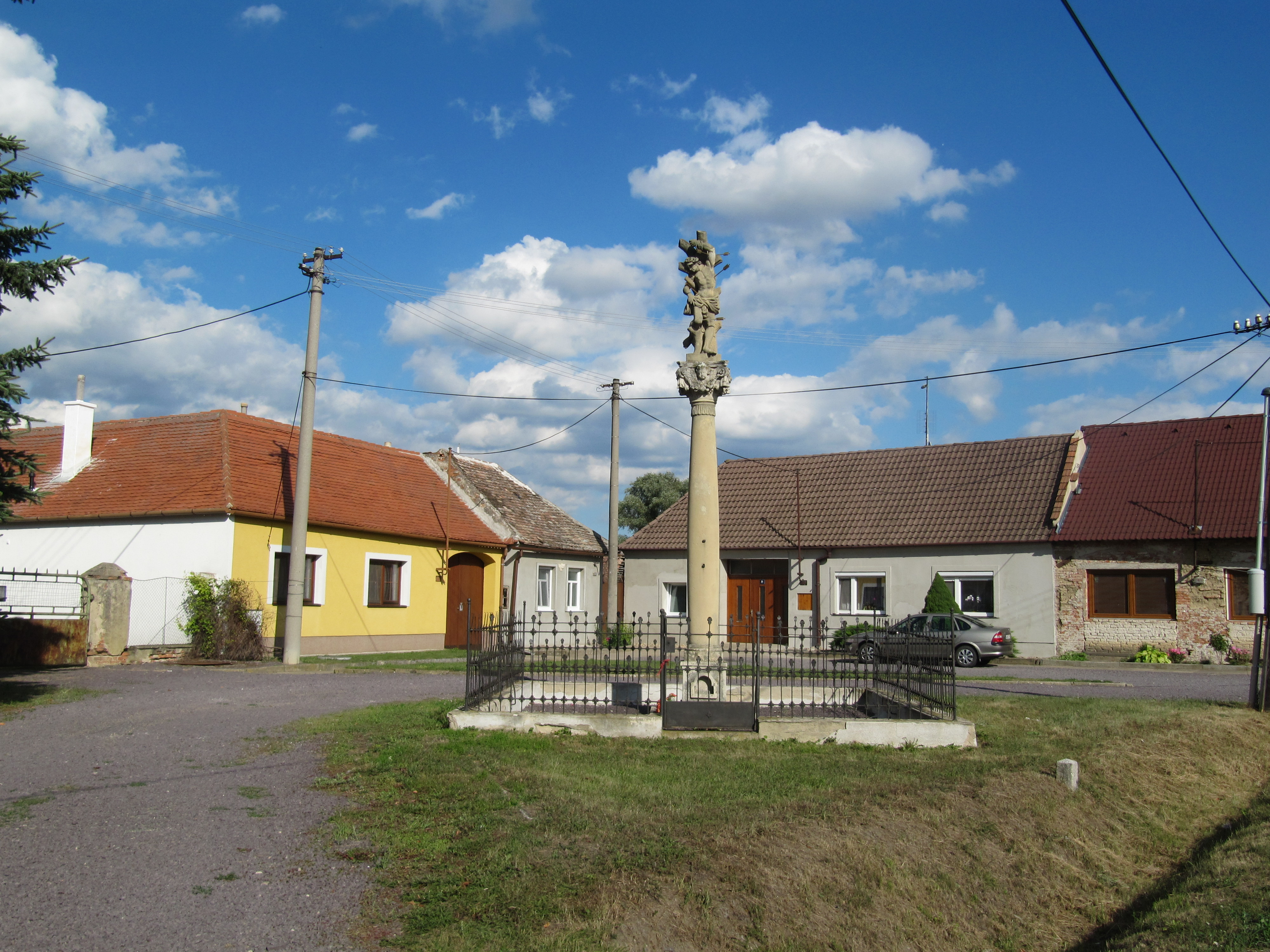 Slup in Znojmo District, Czech Republic. Statue of St. Sebastian.